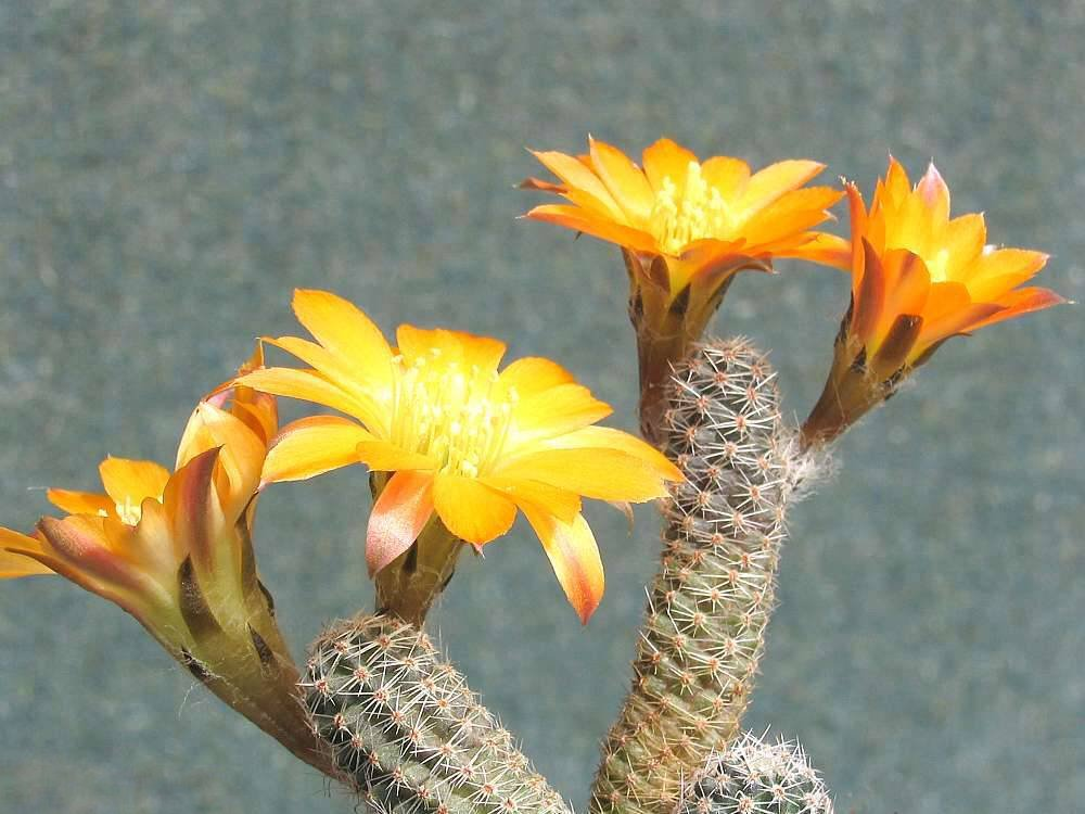 Rebutia diersiana Rausch var. diersiana - cultivated plant from own collection.